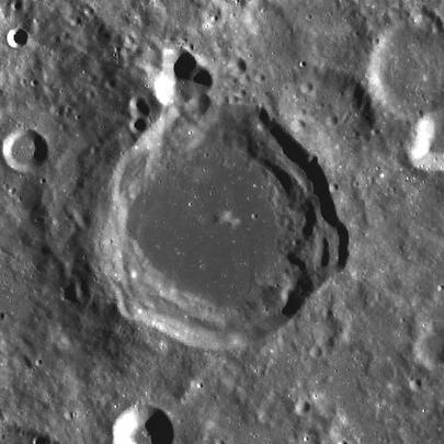 Rumford lunar crater - LROC image